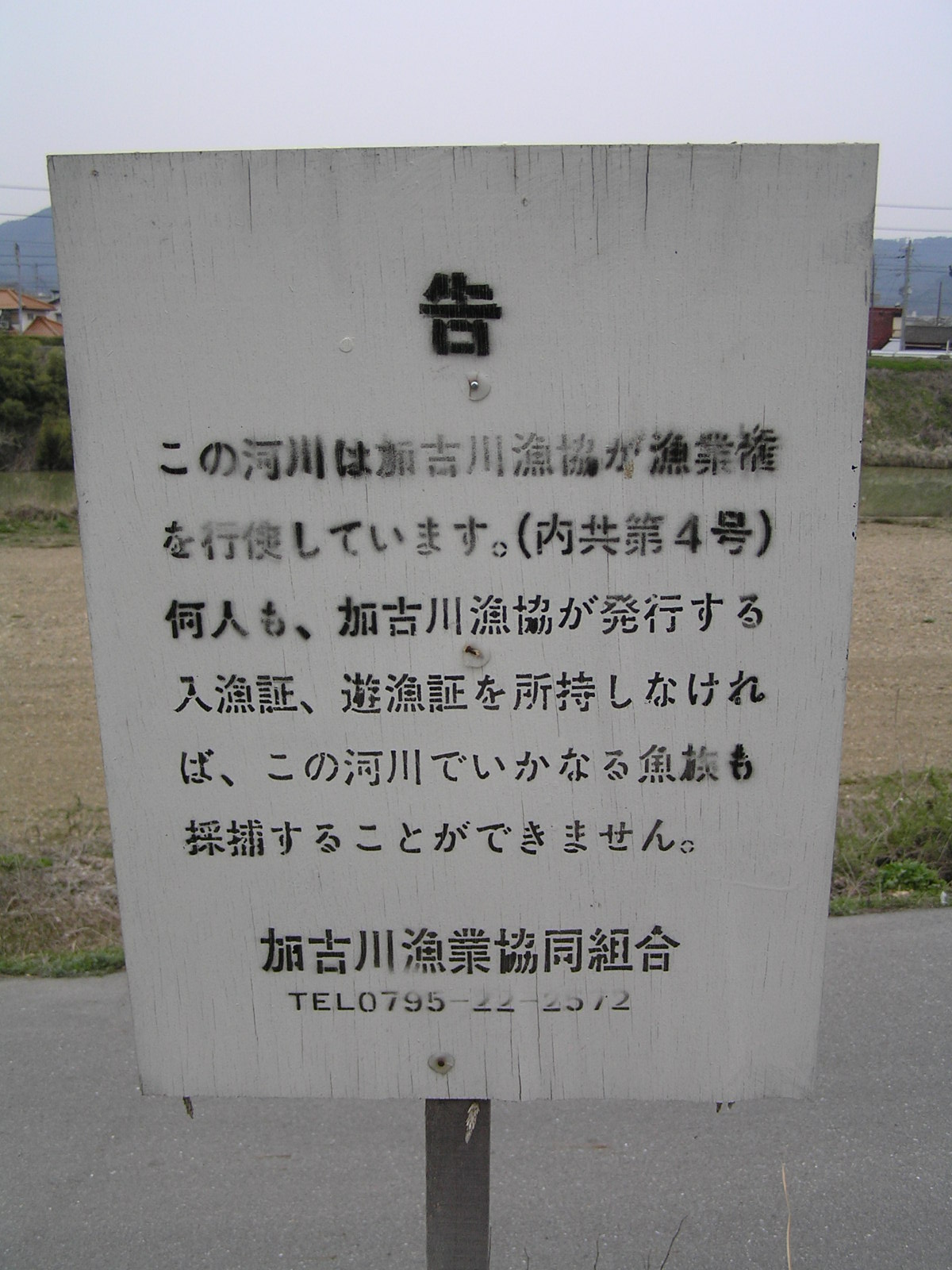 gyogyo-ken,signboard